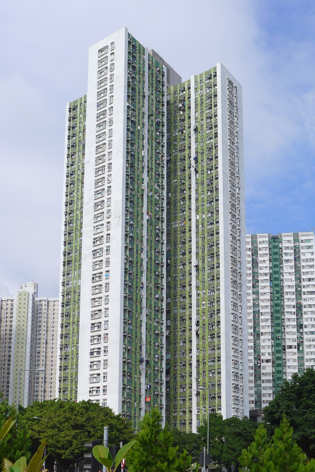 May Shing Court Kwai Shing House